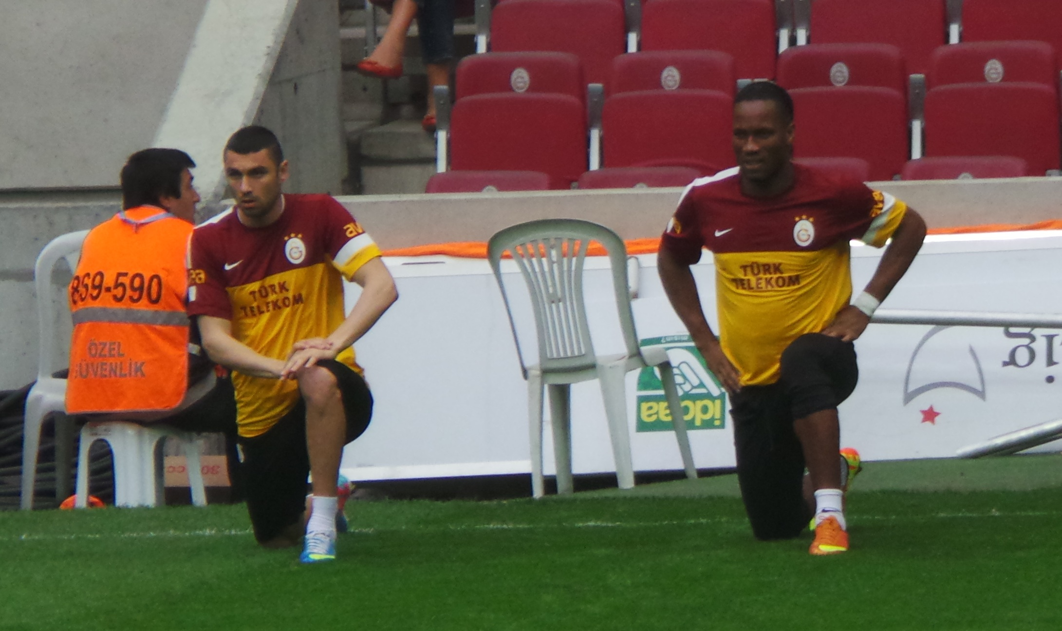 Drogba and Yilmaz